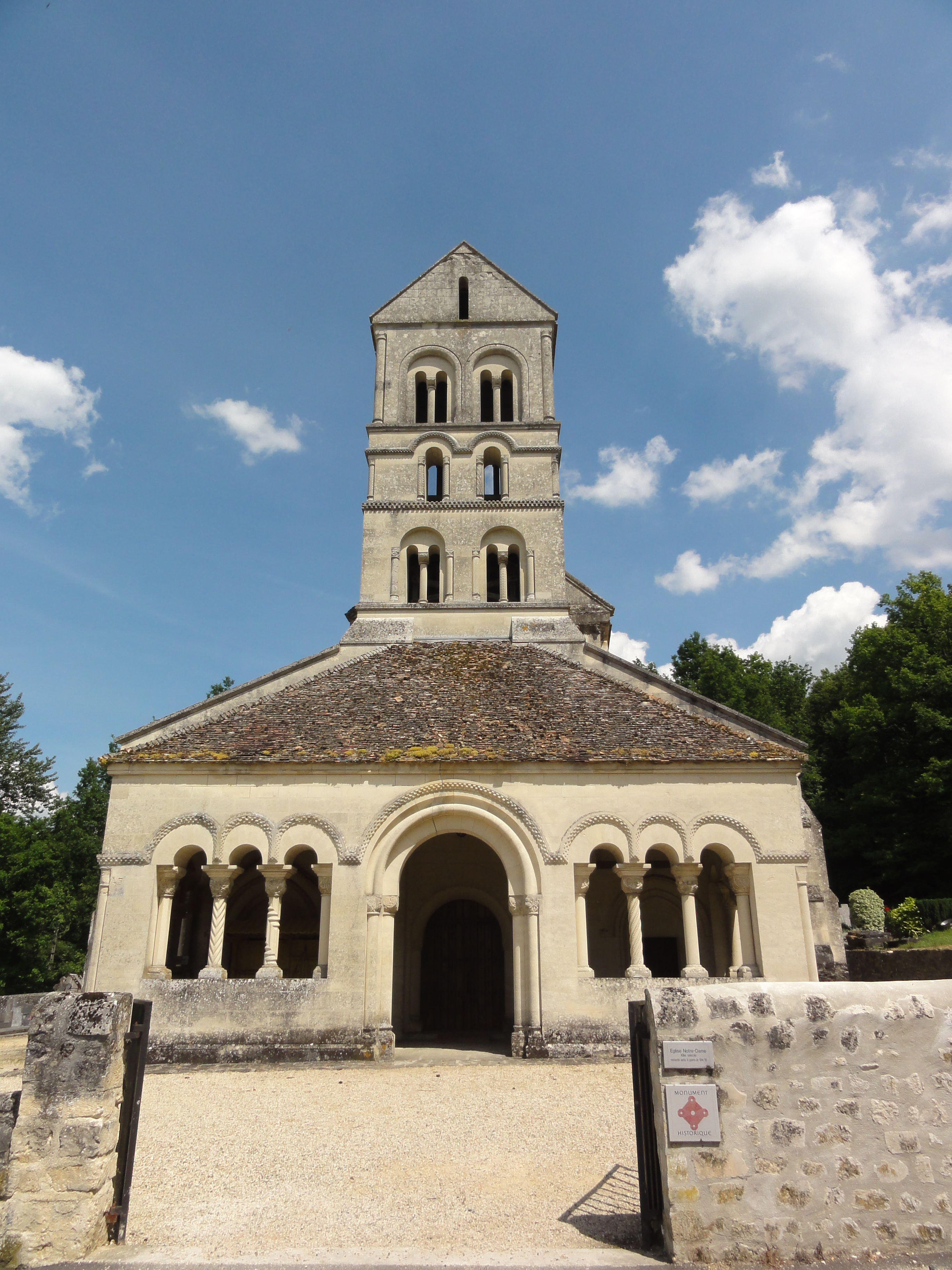 Urcel (Aisne) église Notre-Dame